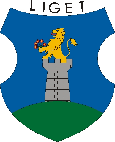 Coat of arms of Liget, Hungary